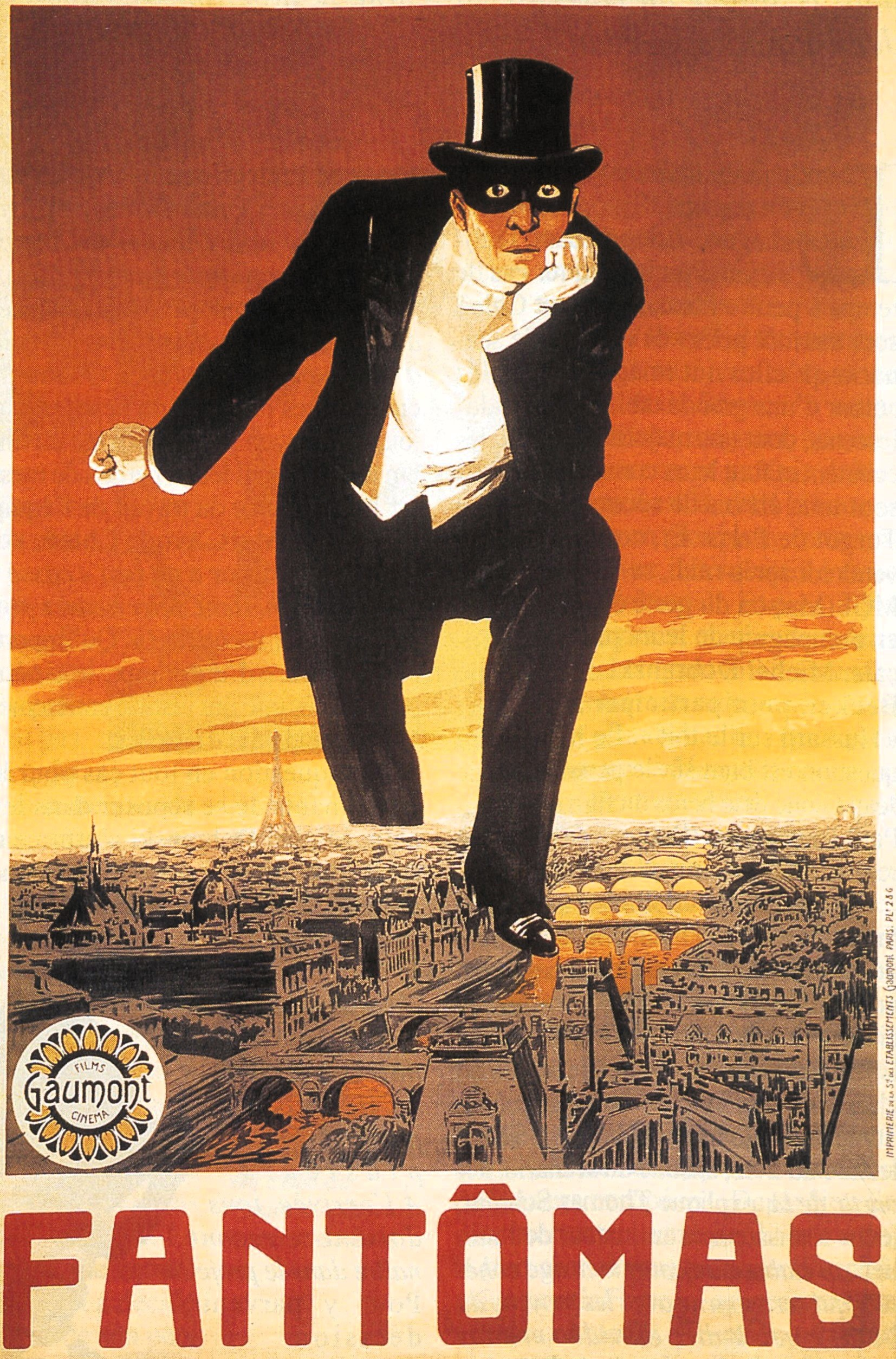 A poster for the first Fantomas film, Fantômas (1913) by Louis Feuillade, produced by Gaumont studios.